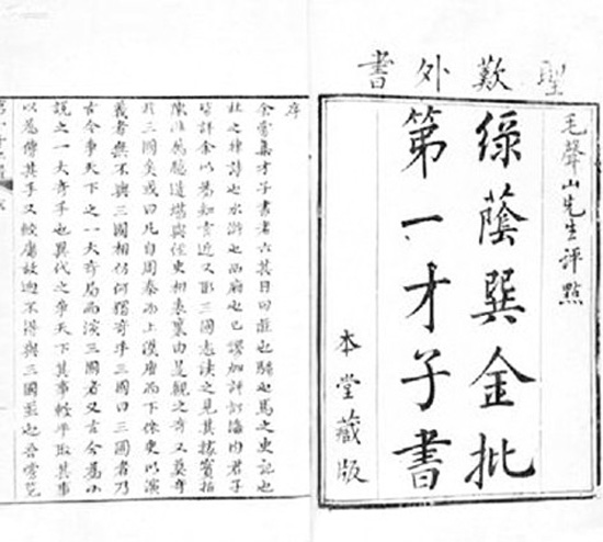 偽冒金聖嘆批本《三國演義》